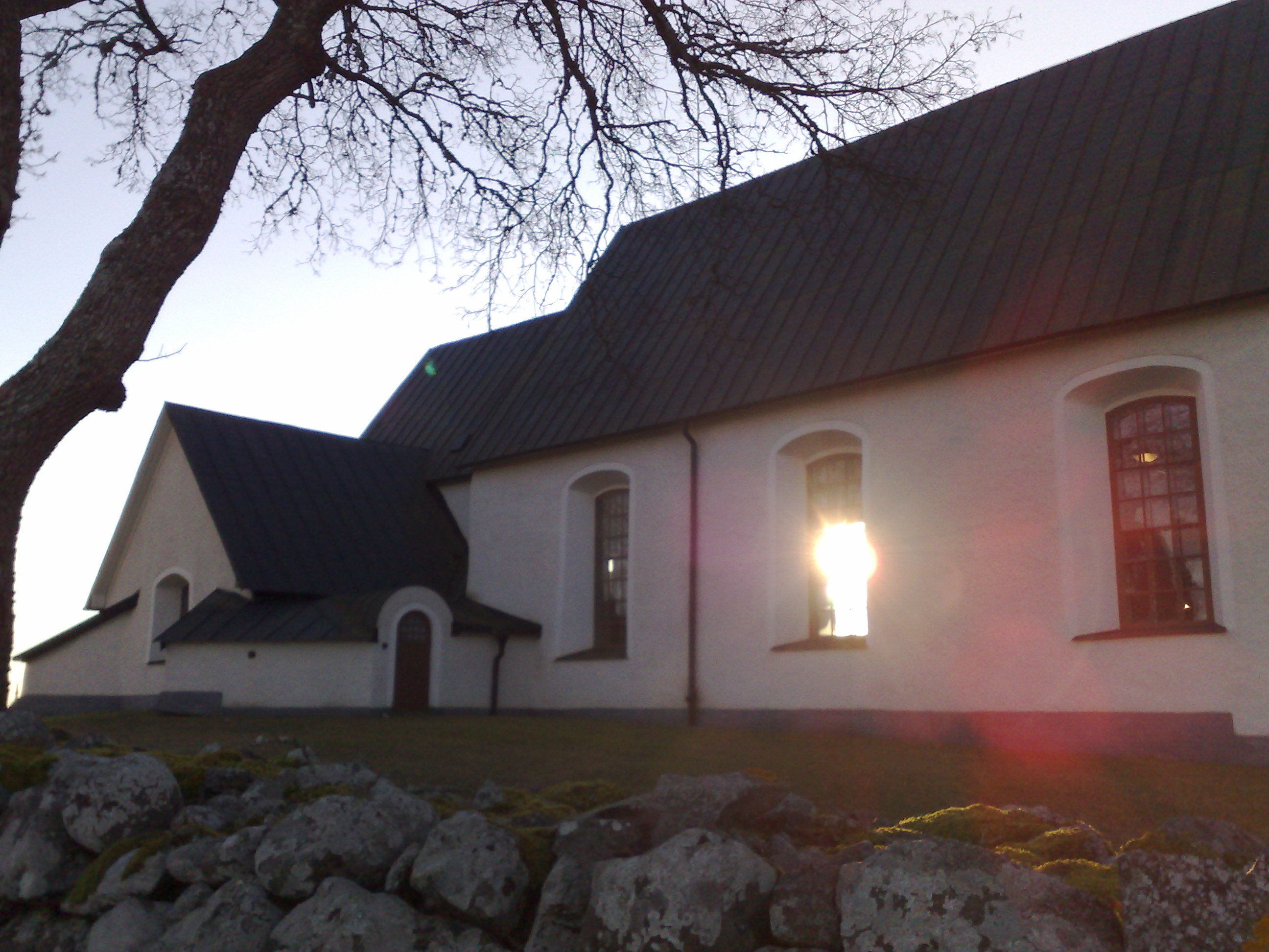 Villberga Church, just outside of Grillby (BBQ Village).